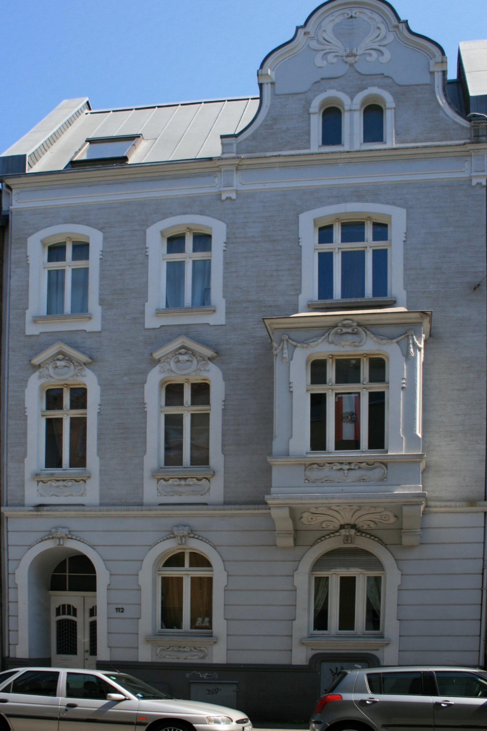 Cultural heritage monument No. R 060 in Mönchengladbach